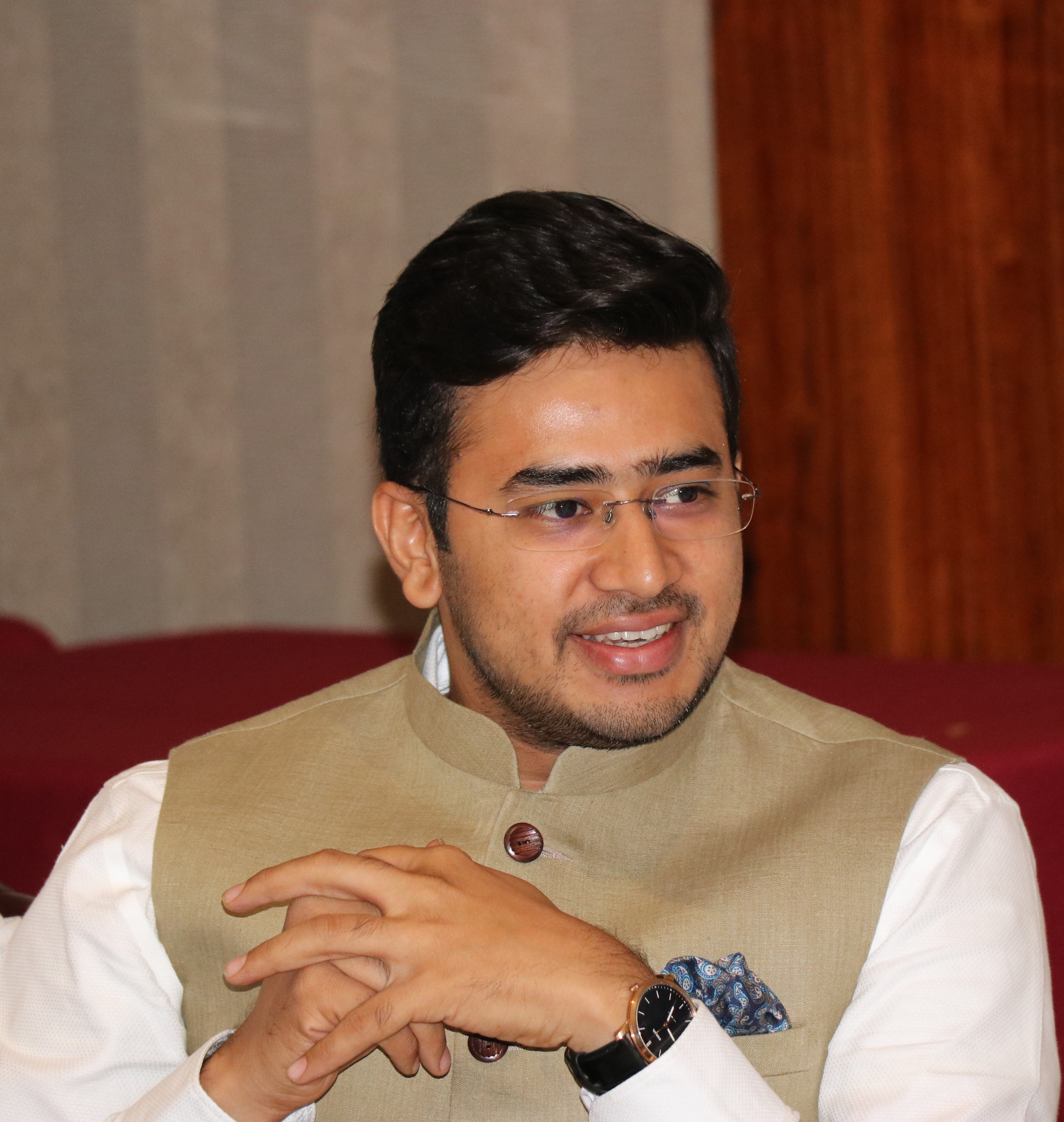 Lakya Suryanarayana Tejasvi, known better as Tejasvi Surya, is an Indian politician. He is the Member of Parliament in the 17th Lok Sabha from the Bangalore South constituency. He became the youngest MP from the majority Bharatiya Janata Party in the 17th Lok Sabha at 28 years, 6 months, 7 days.